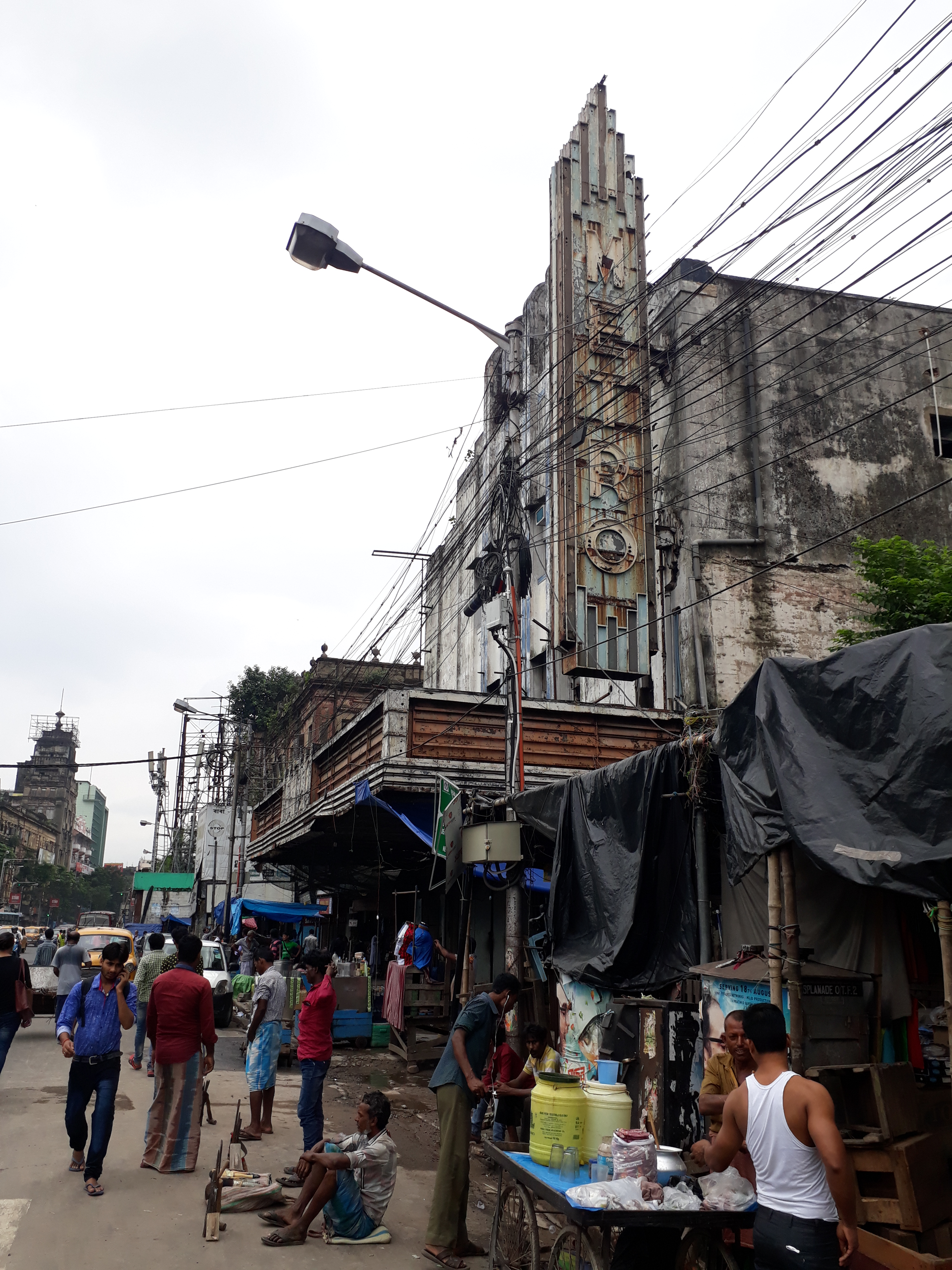 Metro cinema, renovation is going on, Kolkata, Chowrongee